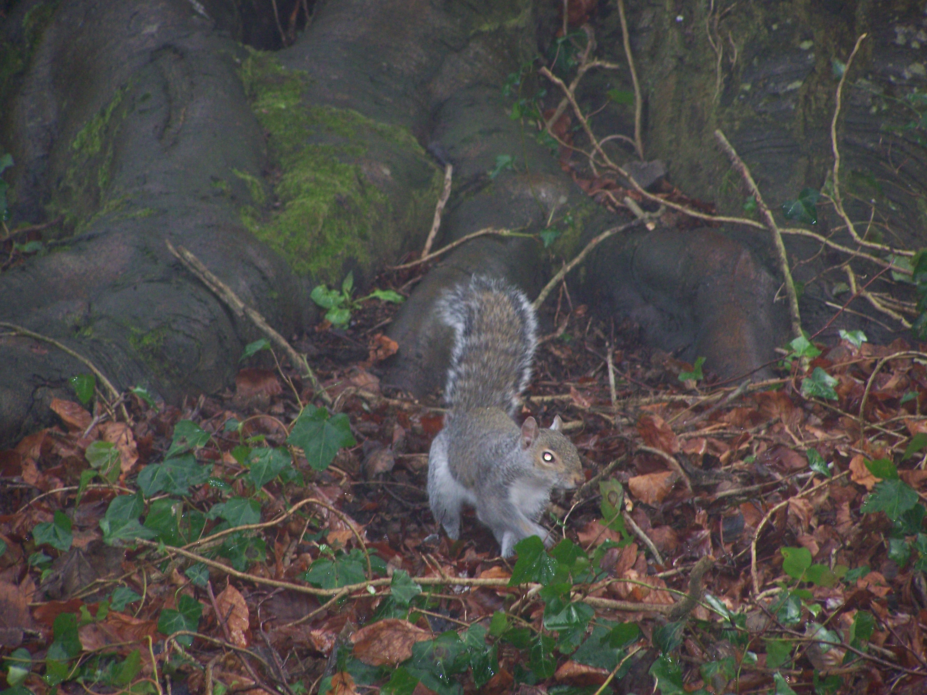 Rory Deegan